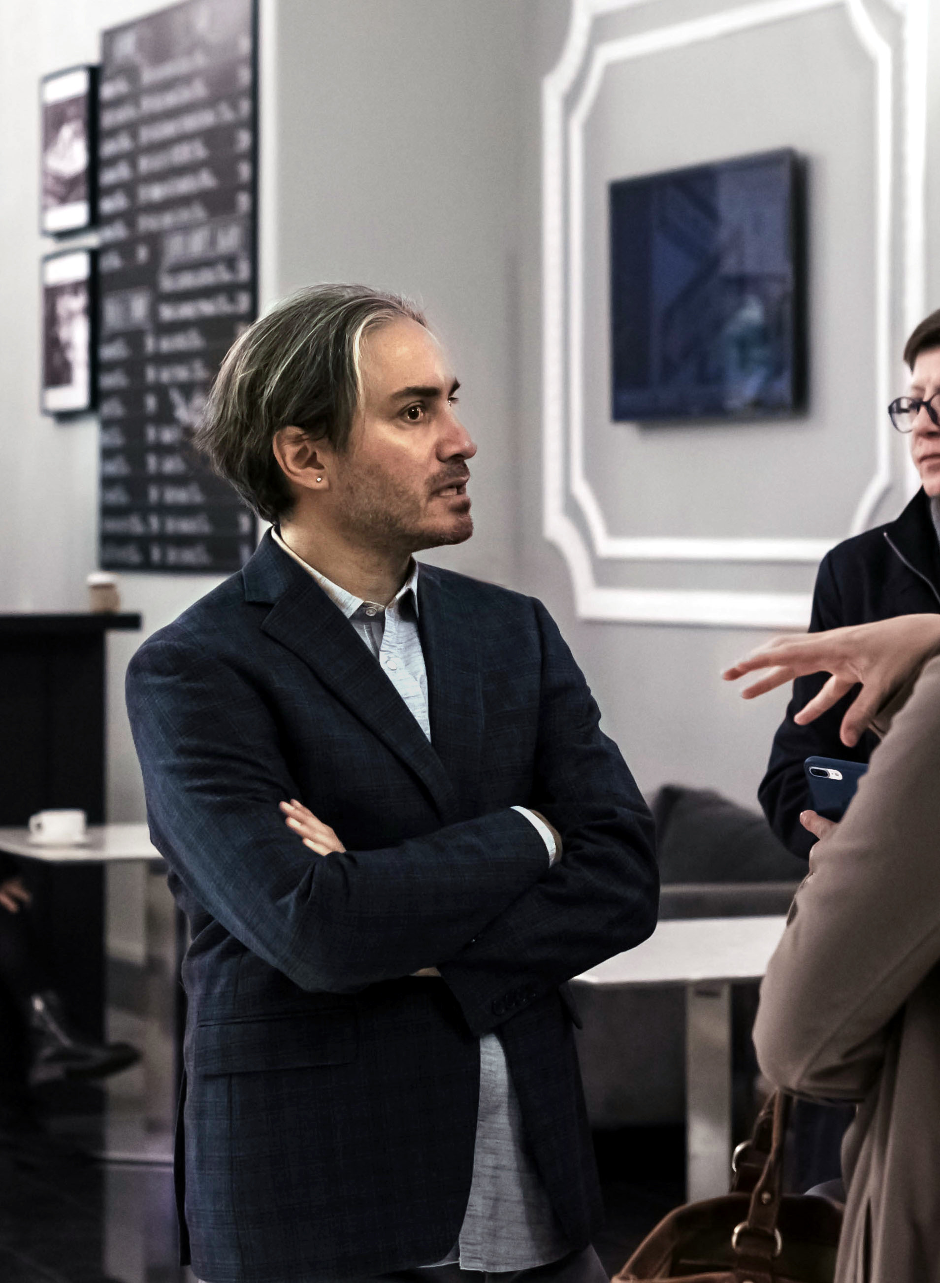 Jeremy Workman, Illuzyion Theater (Moscow)